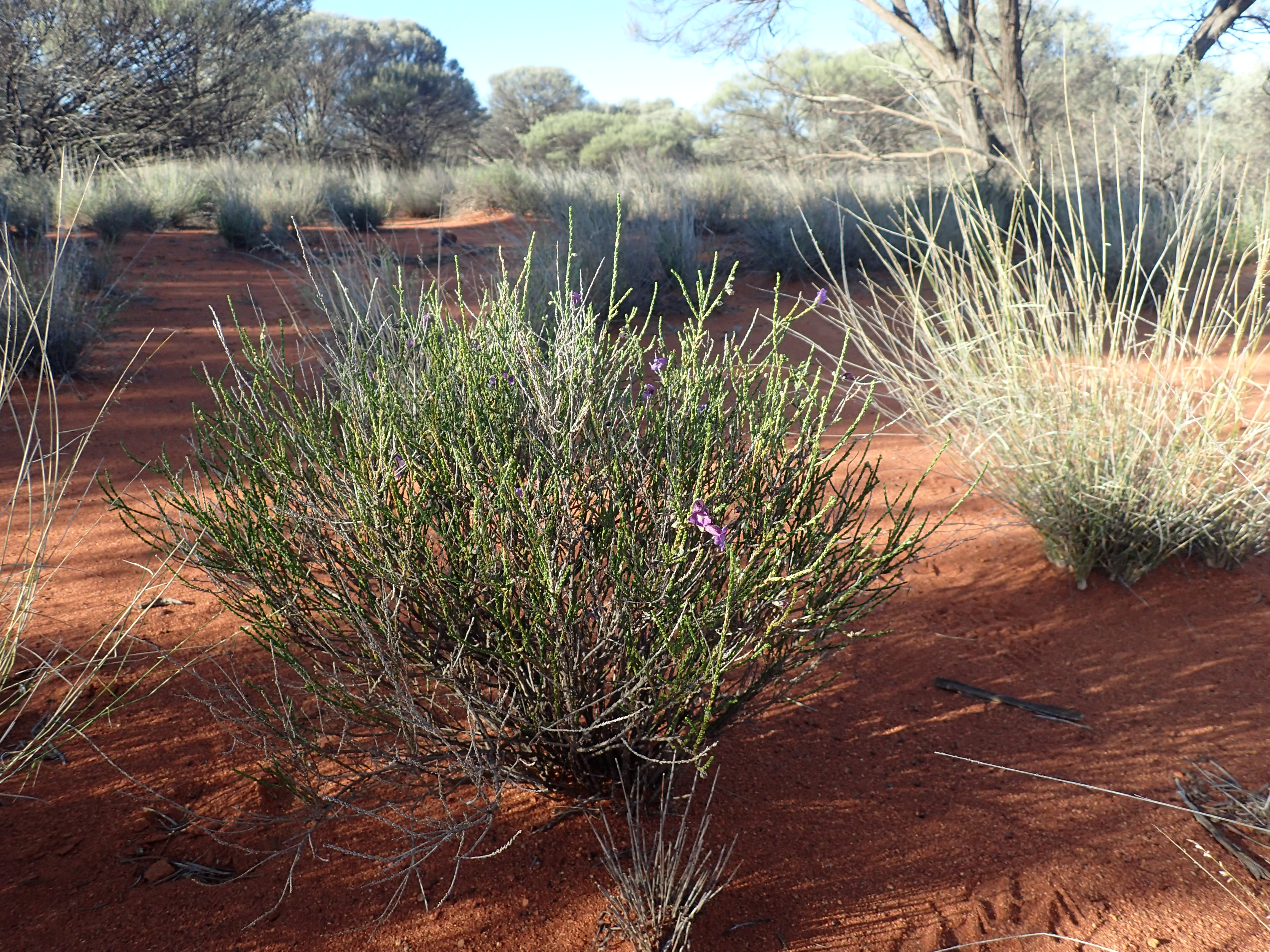 Eremophila homoplastica growing 3.4km south of the Leinster turnoff